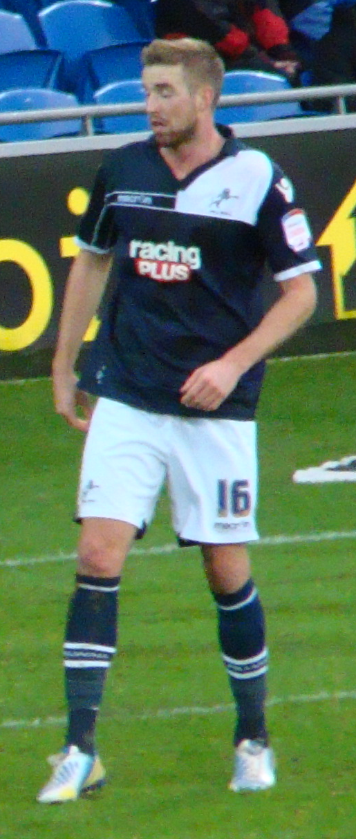 Mark Beevers. Image cropped from original at flickr.